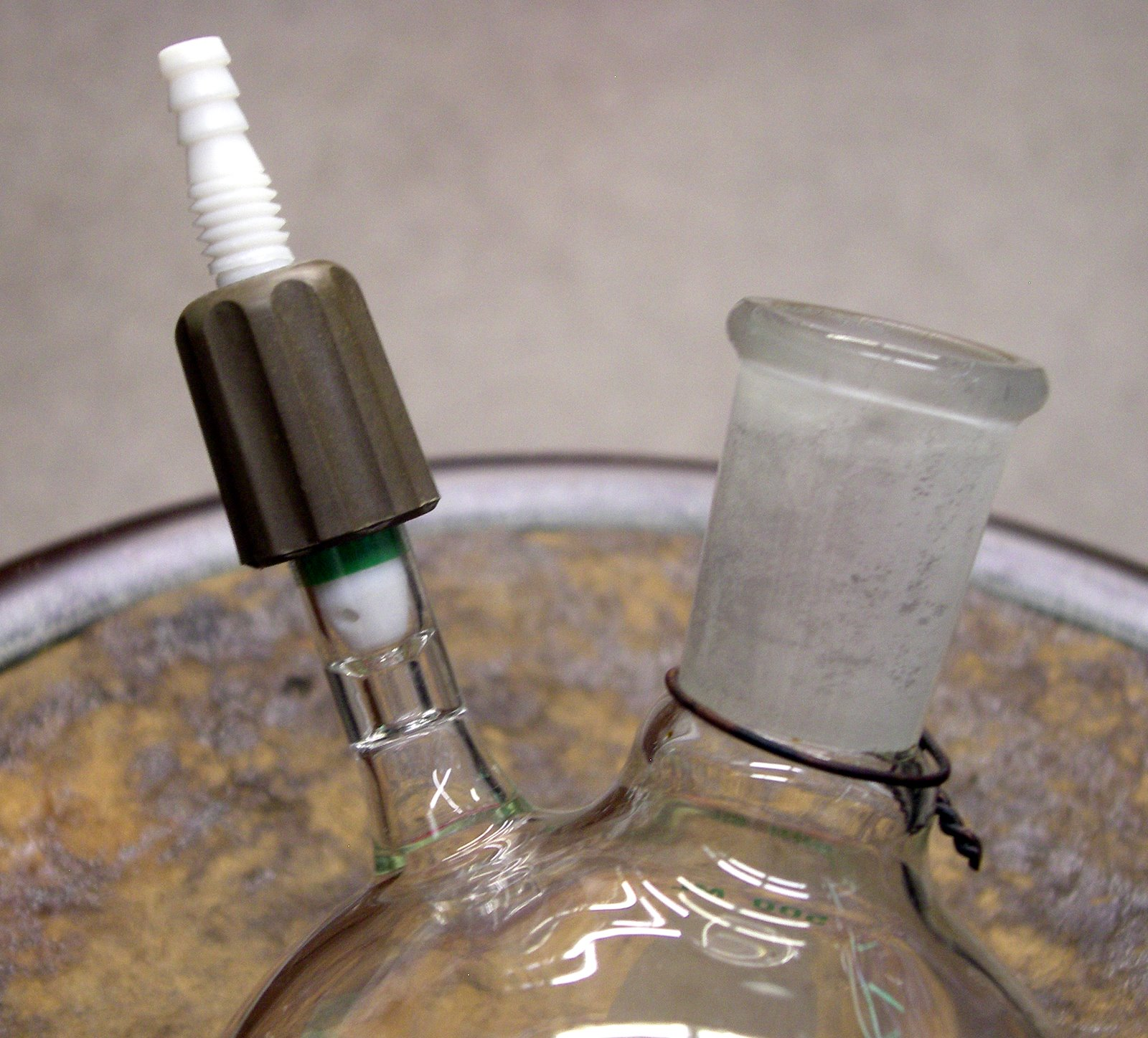 T bore threaded plug valve.